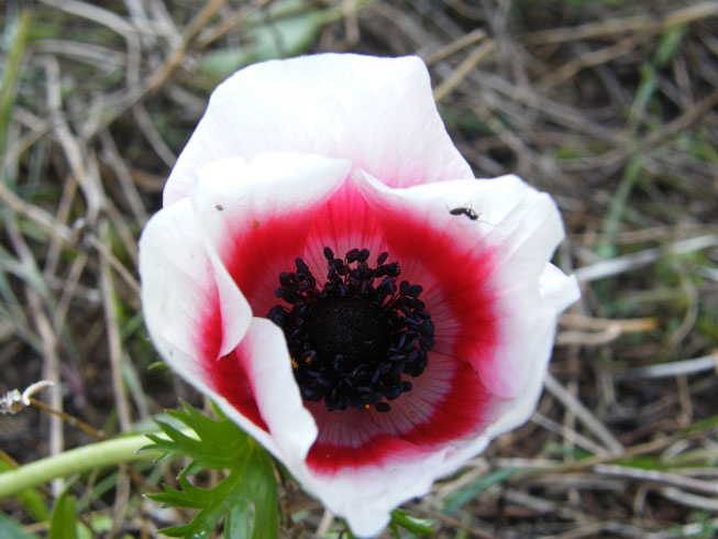 Anemone cultivar.